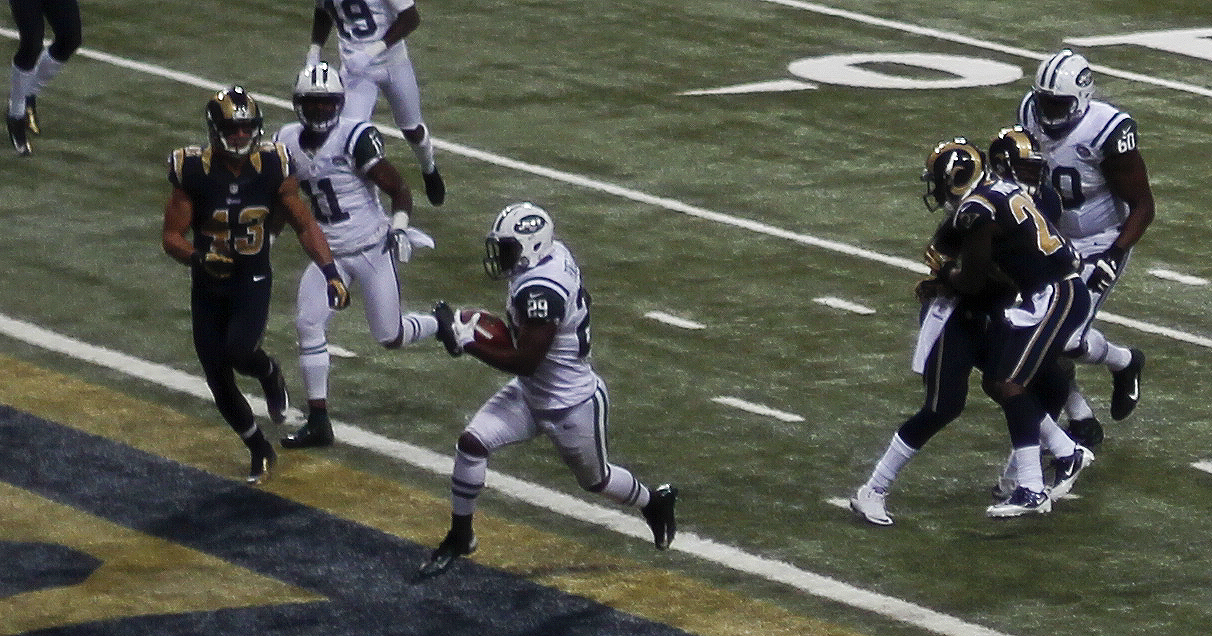 Powell of the Jets scores a TD against st.Louis.